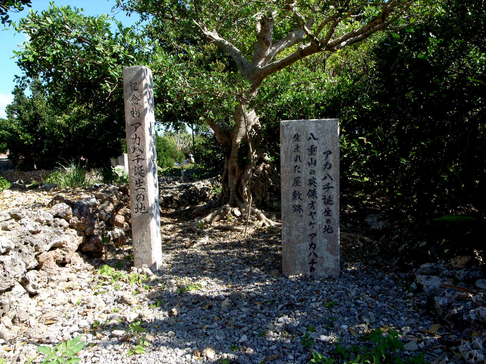 Birth Place of Akahachi, Hateruma Island, Okinawa, Japan